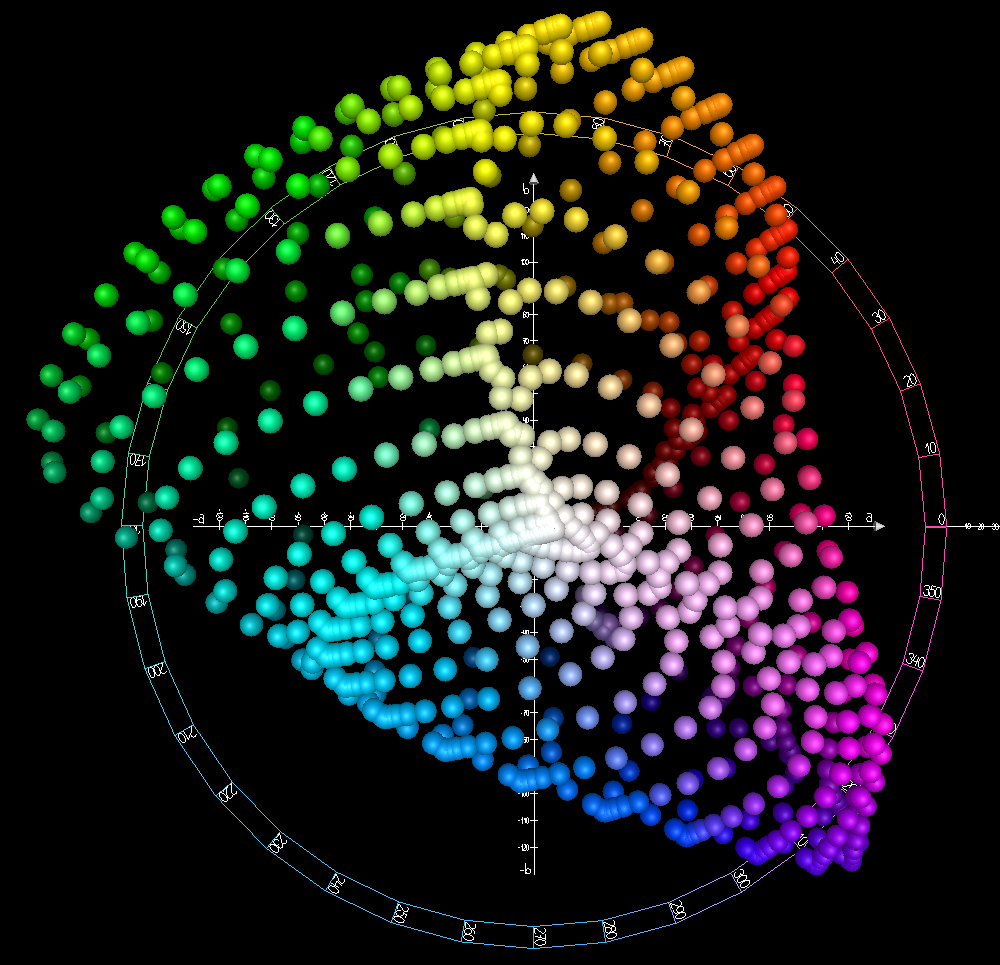 CIELAB color space from above